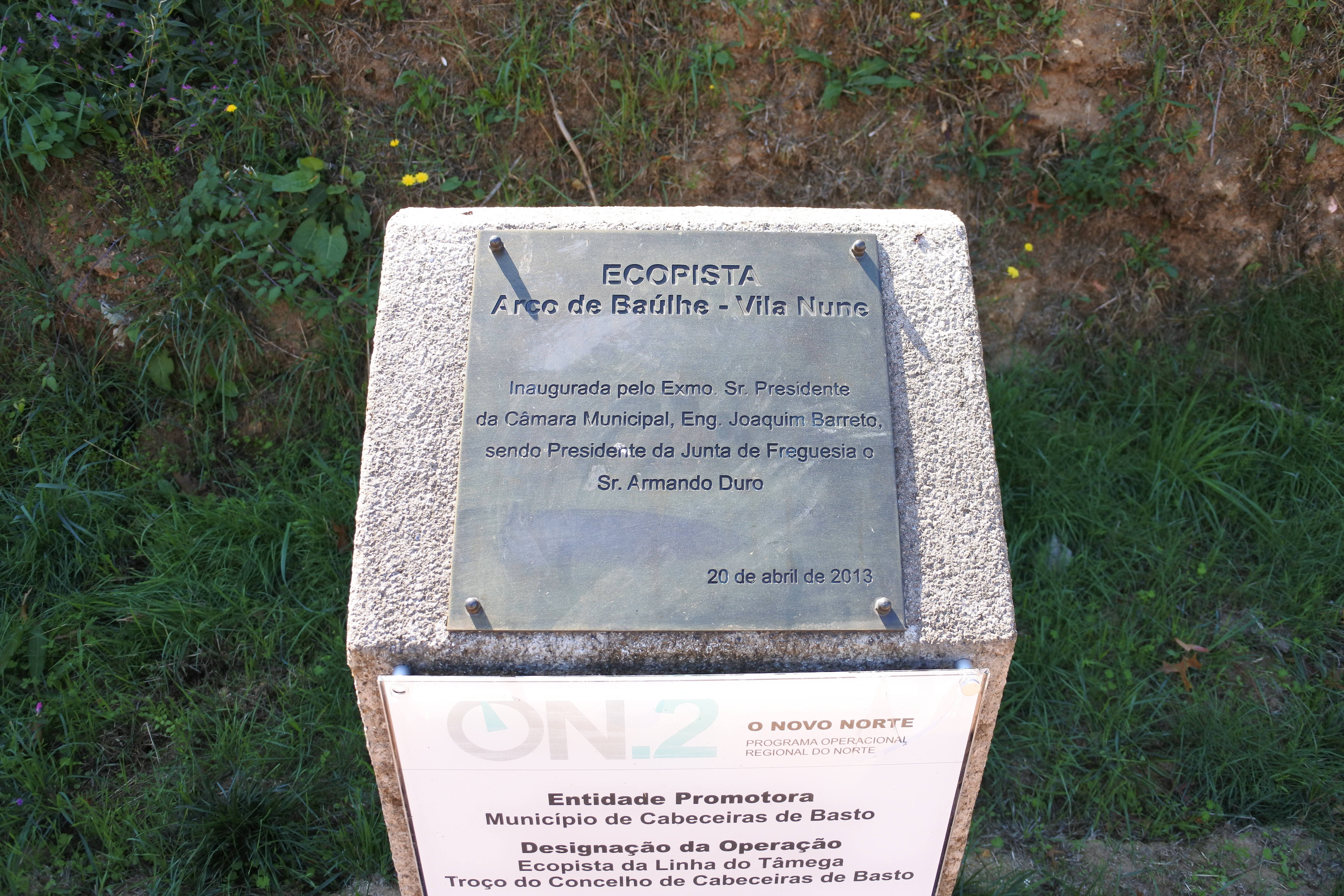 Old train station of Arco de Baúlhe, the start of Arco de Baúlhe - Amarante cyclepath, also known as "Tamega cyclepath", since it mostly follows the valley of the Tamega river.